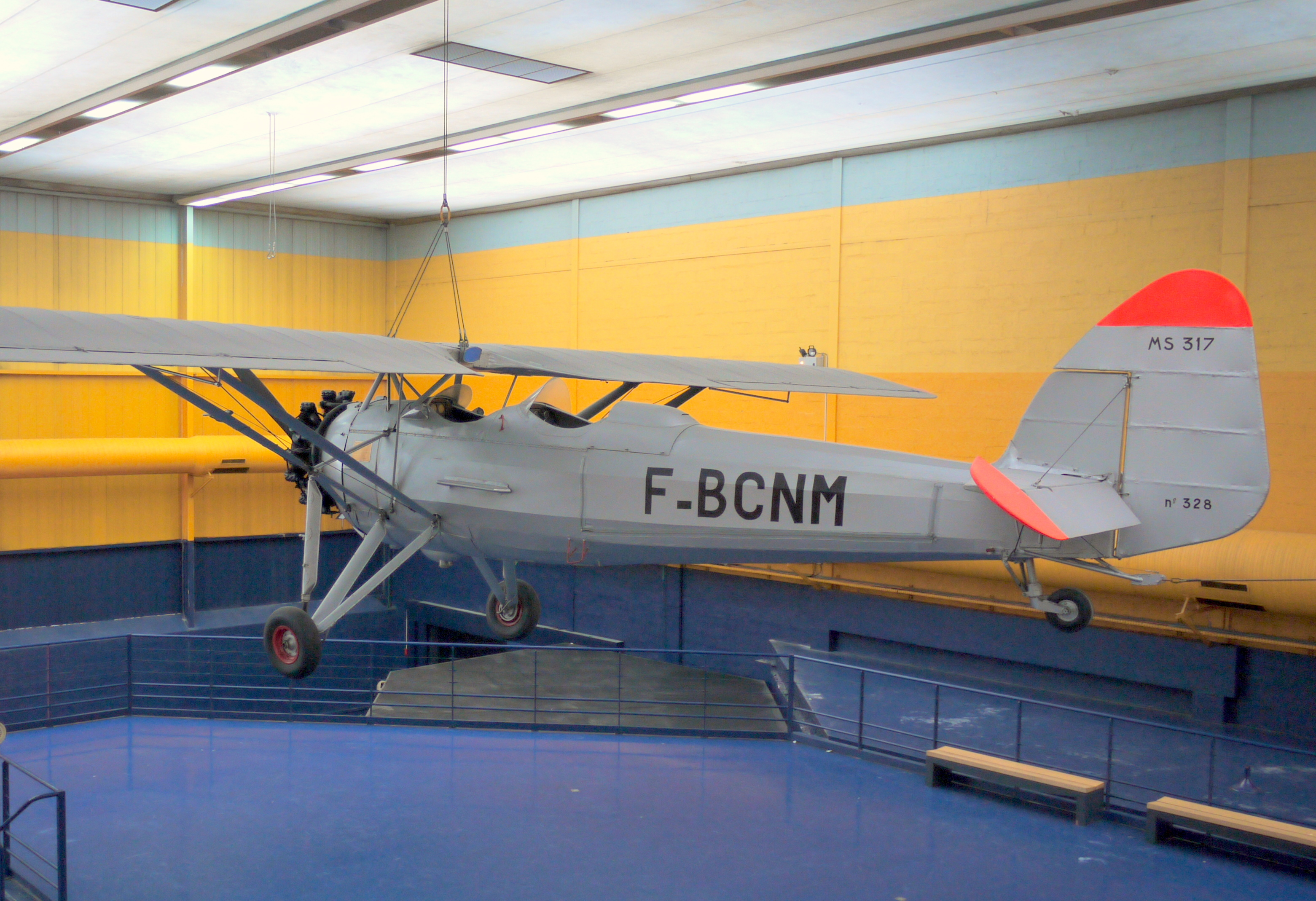 Two-seat training aircraft Morane Saulnier 317 (1930), Museum of Air and Space Paris, Le Bourget (France)